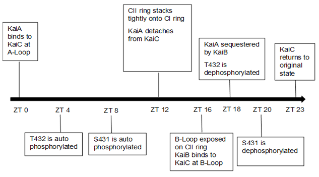 KaiC autokinase and autophosphatase activity timeline